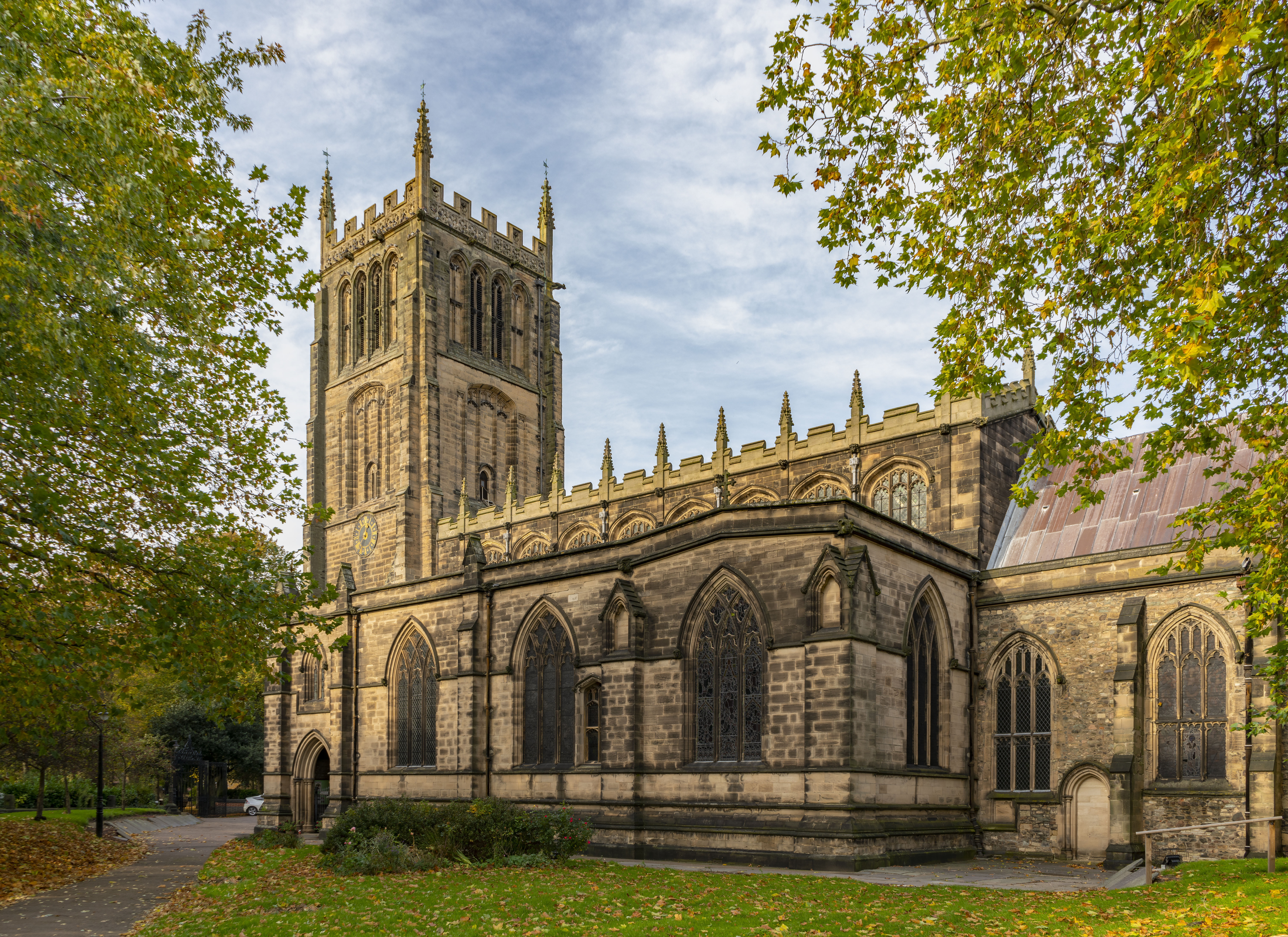 All Saints' Church, Loughborough. October 2019.